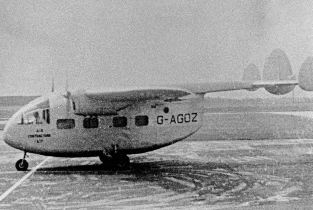 Miles M.57 Aerovan 1 G-AGOZ of Air Contractors at Manchester Airport in 1946 showing this aircraft's square windows